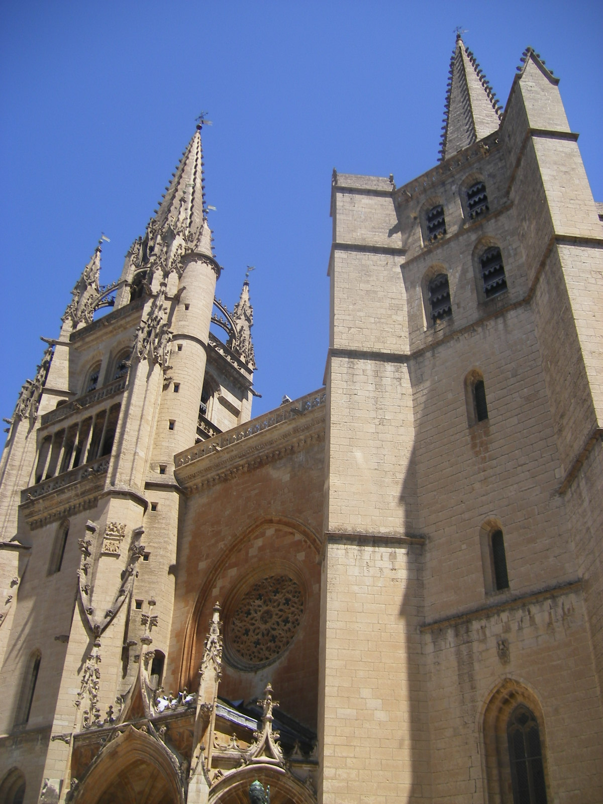 Mende, Cathedral